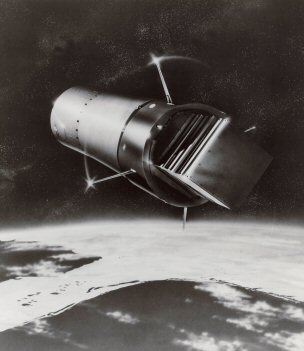 Mercury_Scout-1 (MS-1) or MNTV (Mercury Network Test vehicle) (NASA NO. 61-M-Scout-4)